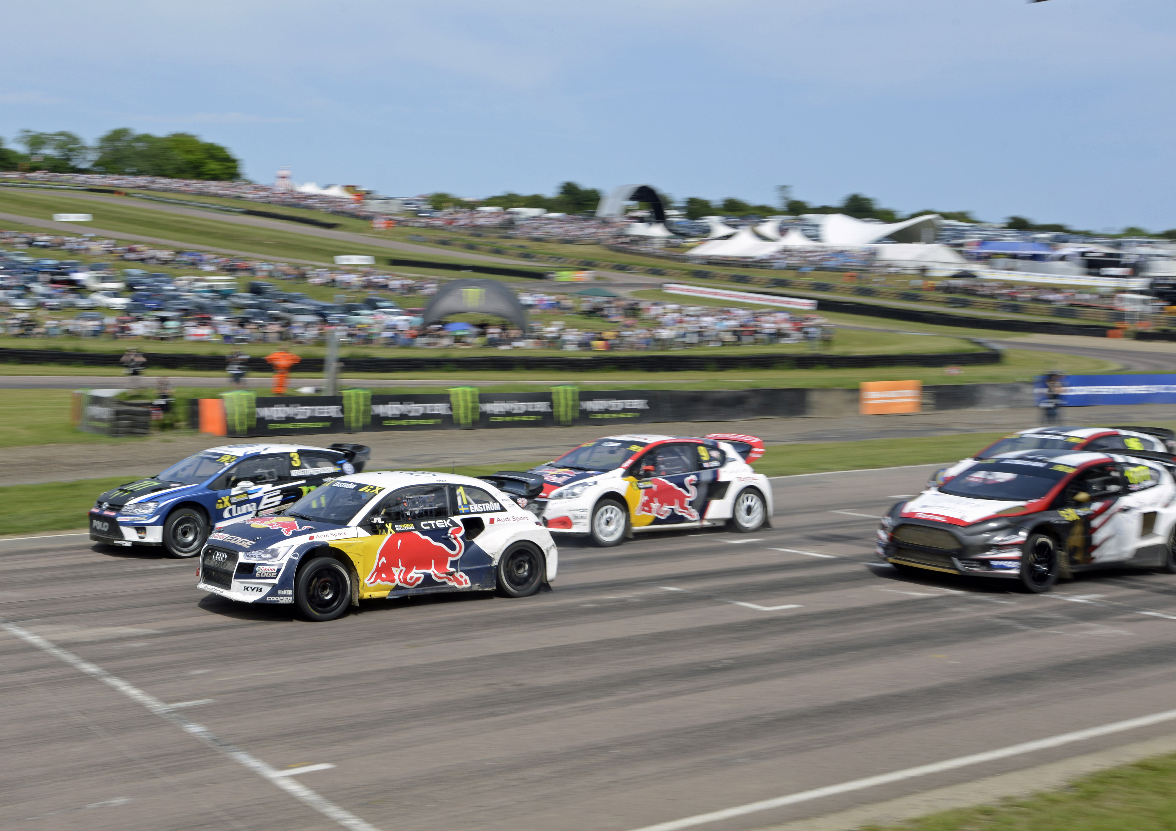 2017 FIA World Rallycross Championship // Round 05, Lydden Hill // Credit: EKS/Daniel Roeseler